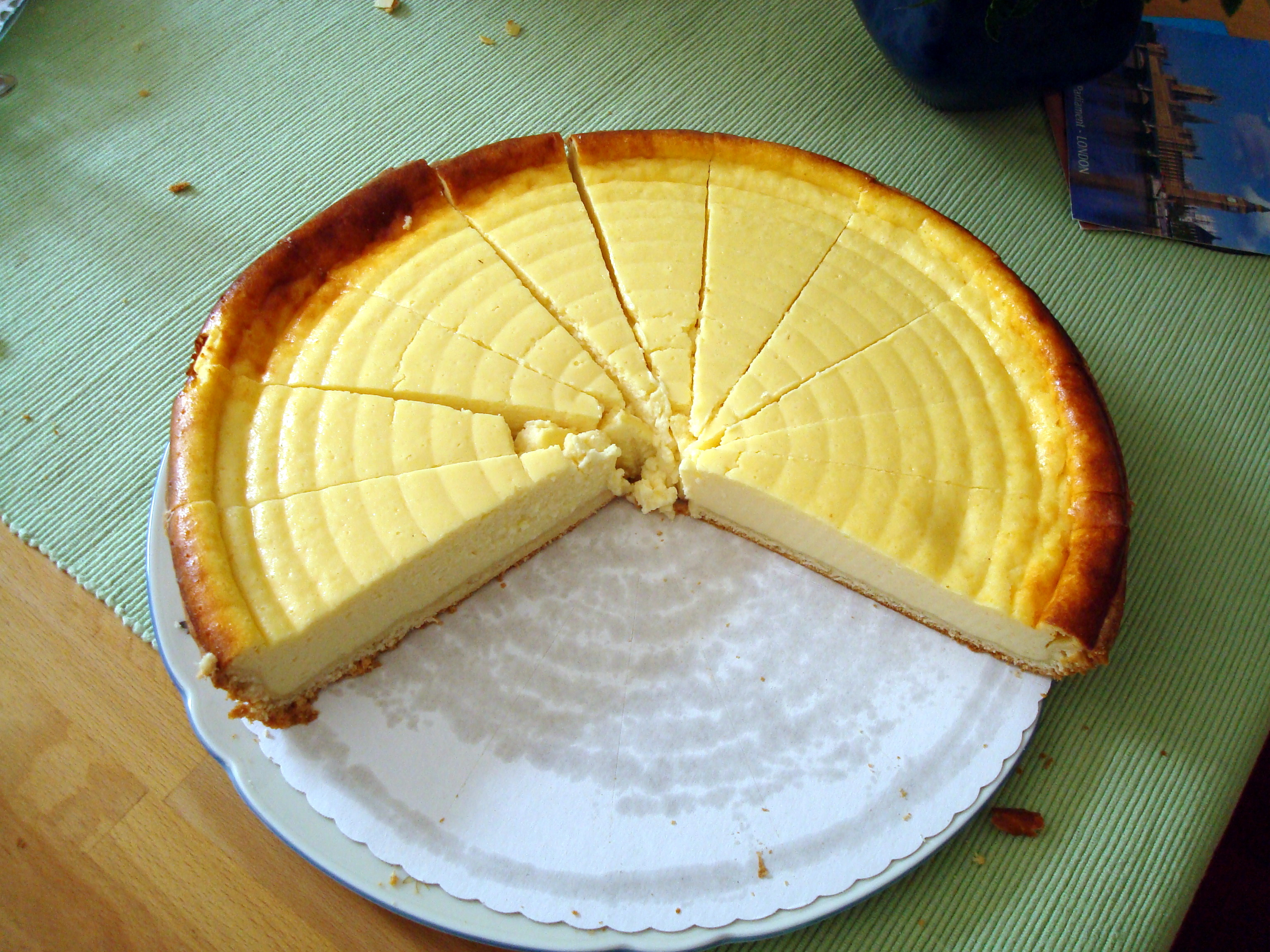 German-style cheesecake (Käsekuchen) uses quark cheese